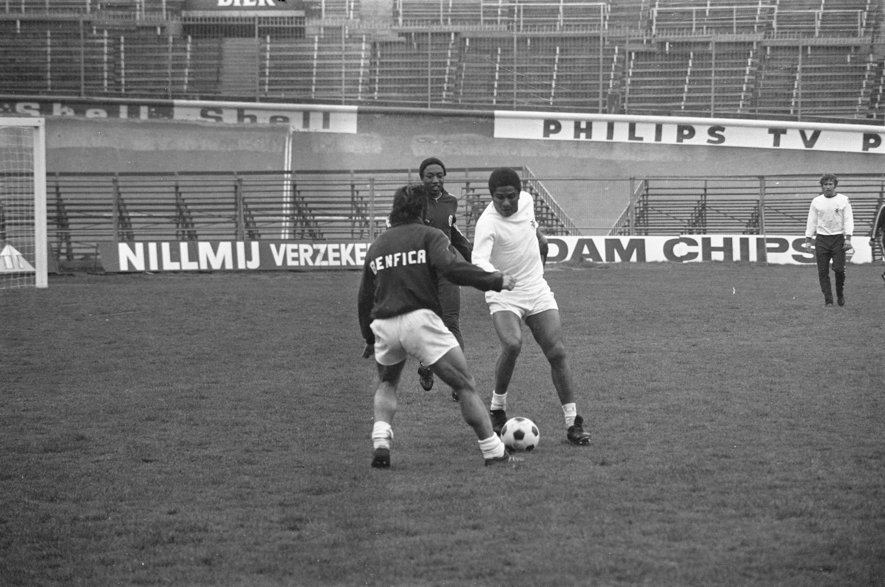 Benfica football team training in Olympic Stadium Amsterdam, 4 April 1972. Eusebio in white shirt.